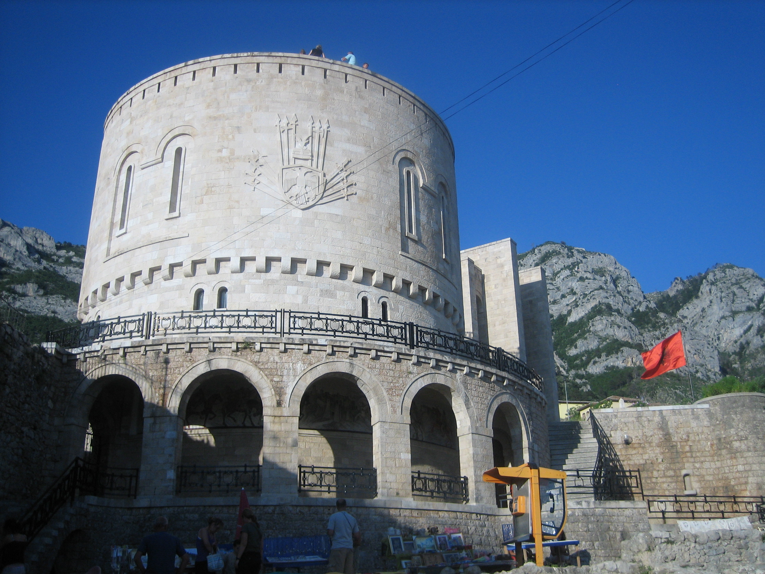 Skanderbeg Museum in Krujë, Durrës County, Albania